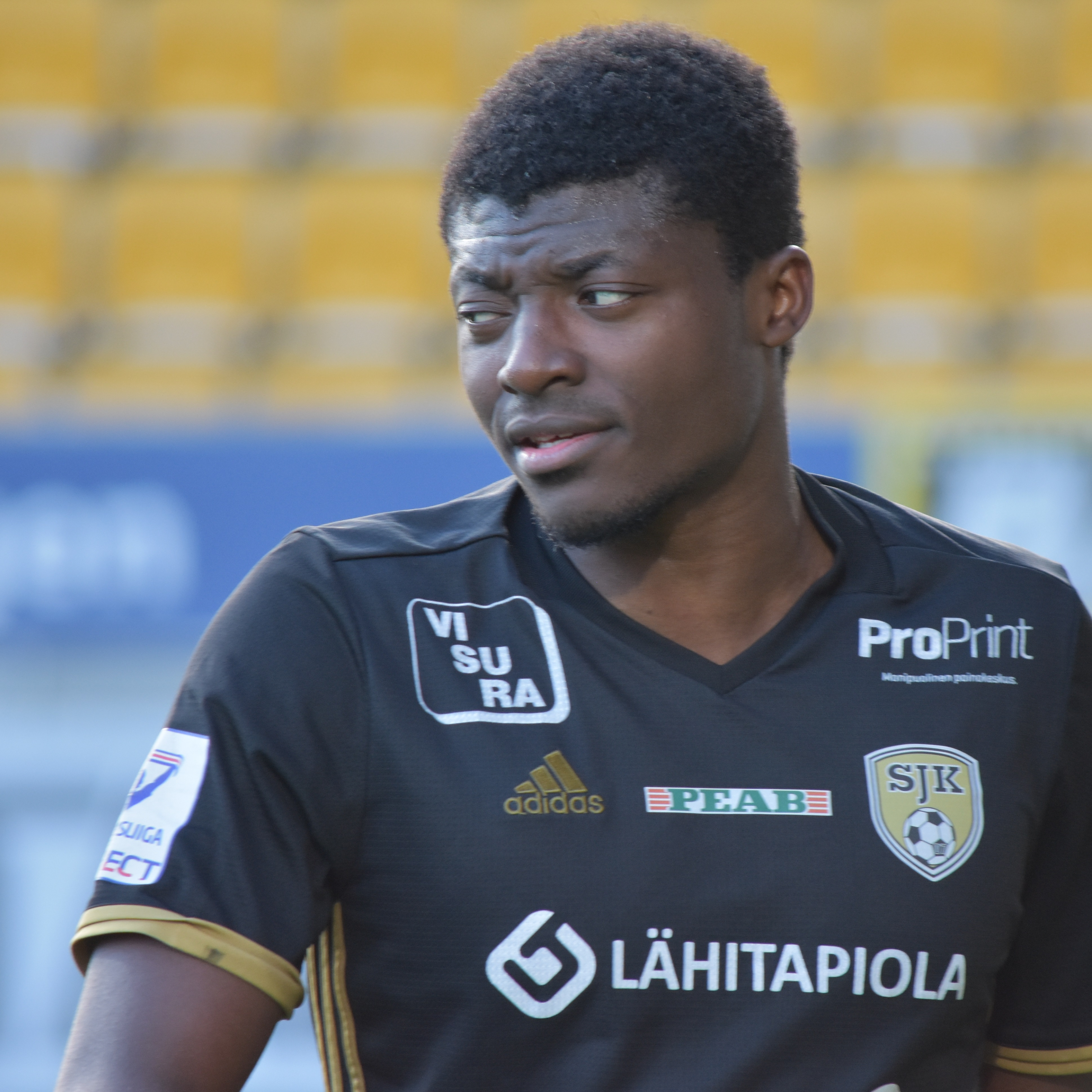 Association football player Aristote M'Boma (SJK)